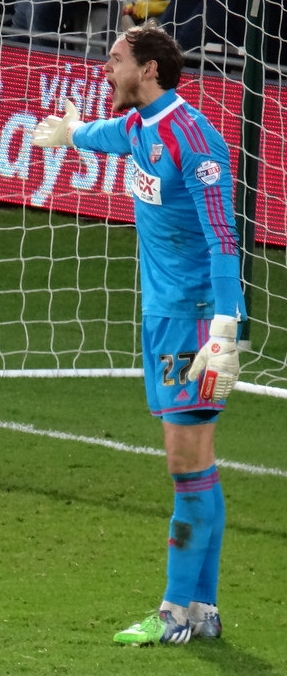 Brentford FC goalkeeper David Button during a match versus Cardiff City in November 2014.